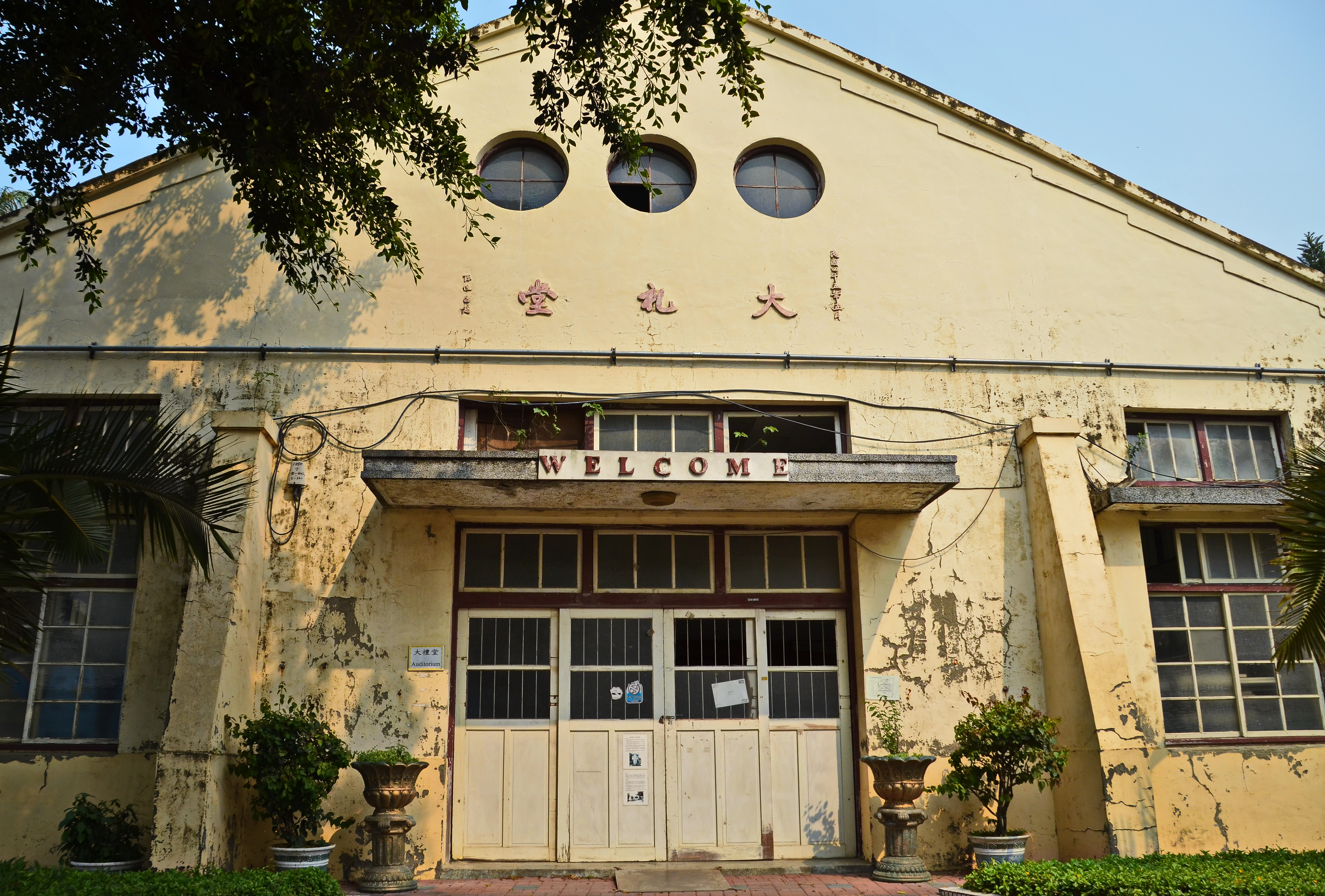 Former Assembly Hall of the Tainan City Huan-Ya Elementary School, Yanshui District, Tainan City, Taiwan.